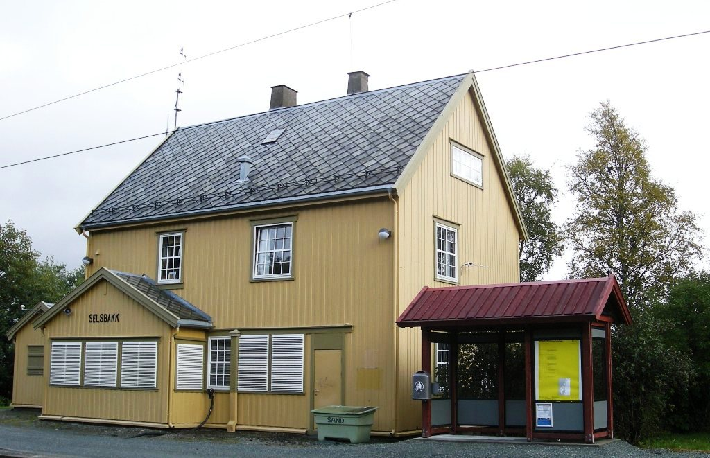 Selsbakk station on the Dovre line (Sør-Trøndelag, Norway)